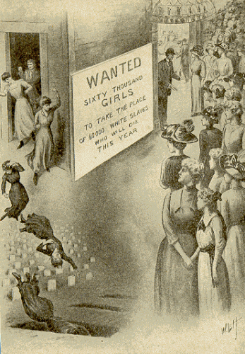 Newspaper clip "Wanted 60,000 girls to take the place of 60,000 white slaves who will die this year"